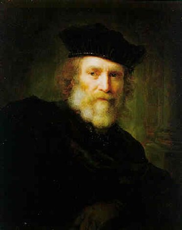 This image is available from the Netherlands Institute for Art Historyunder digital ID 19075. This tag does not indicate the copyright status of the attached work. A normal copyright tag is still required. See Commons:Licensing.